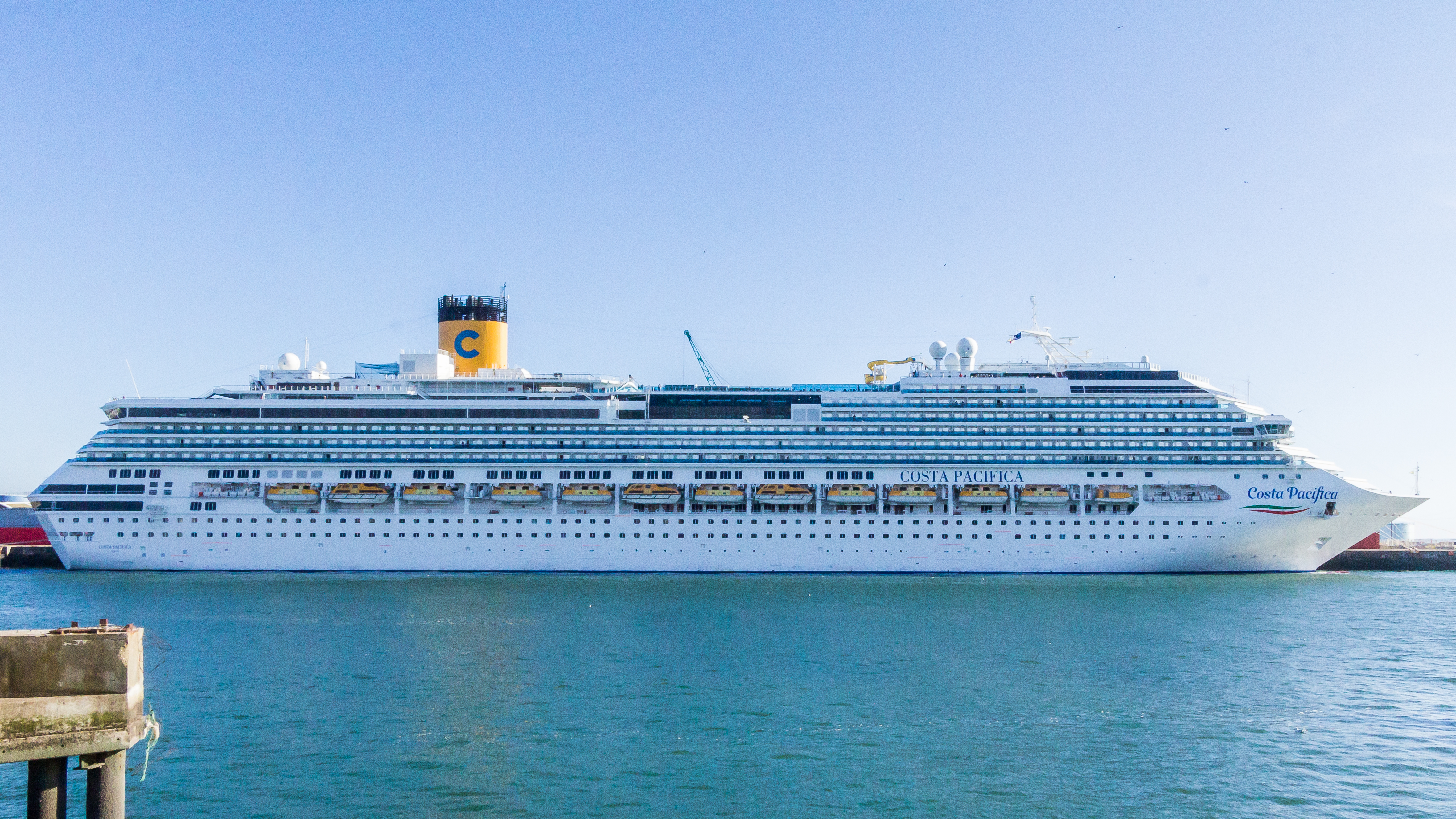 Costa Pacifica - IMO 9378498 - in Le Havre port, moored at Quai Roger Meunier, Bassin de la Manche